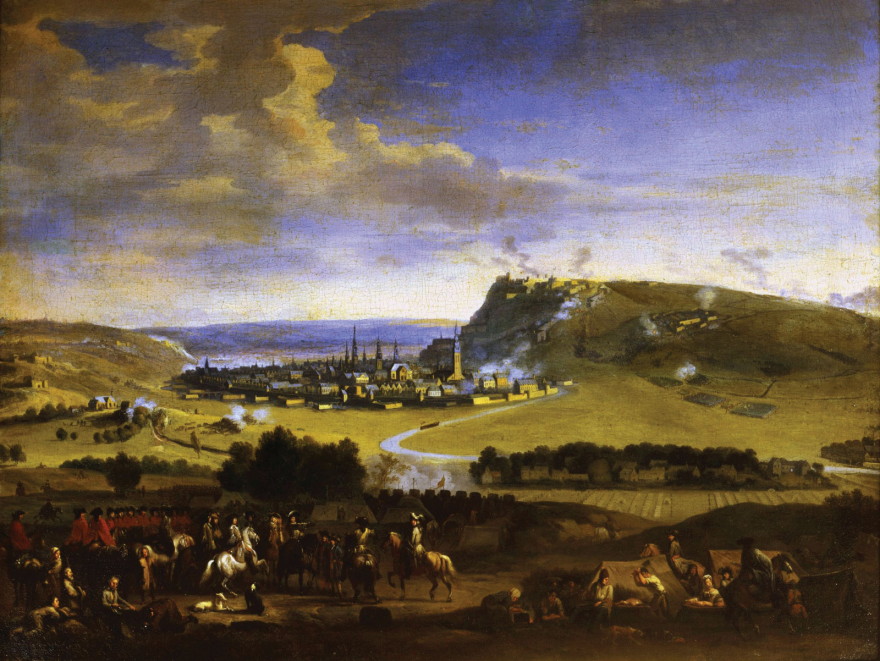 Siege of Namur (1695).